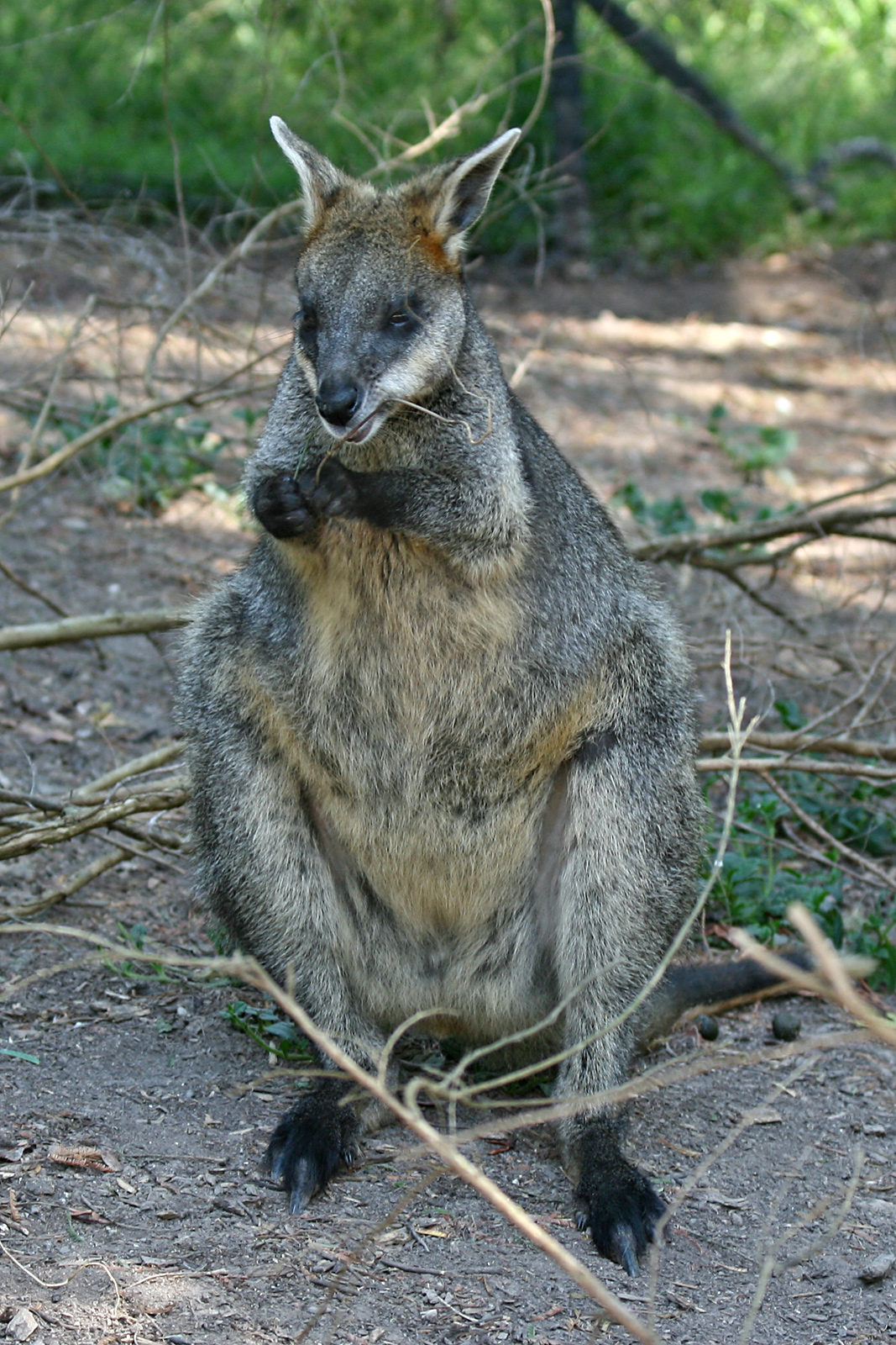 Female Swamp Wallaby (Wallabia bicolor), Victoria, Australia. January, 2008.